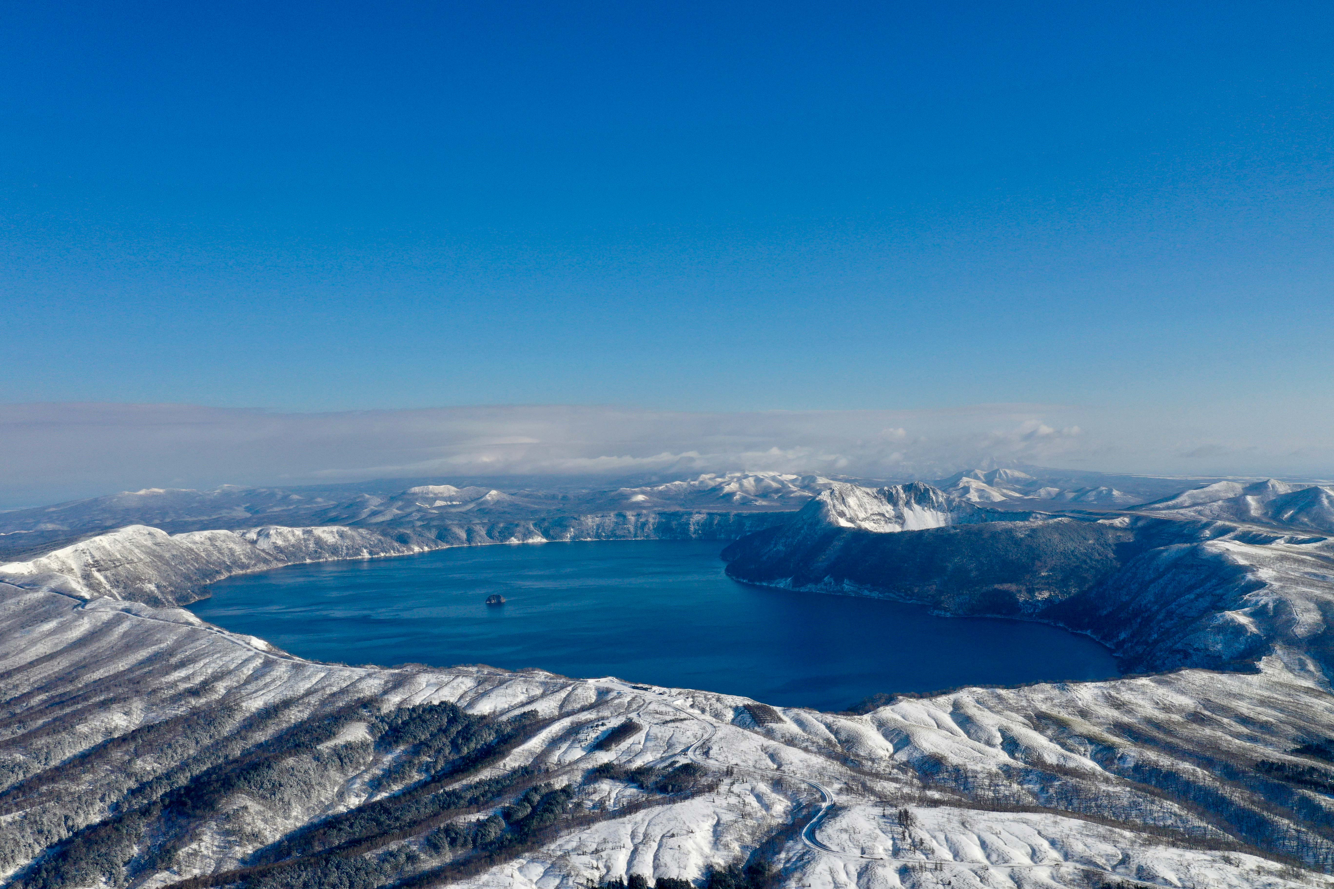 Lake Mashū in Japan during a snowy winter in Akan National Park Hokkaidō